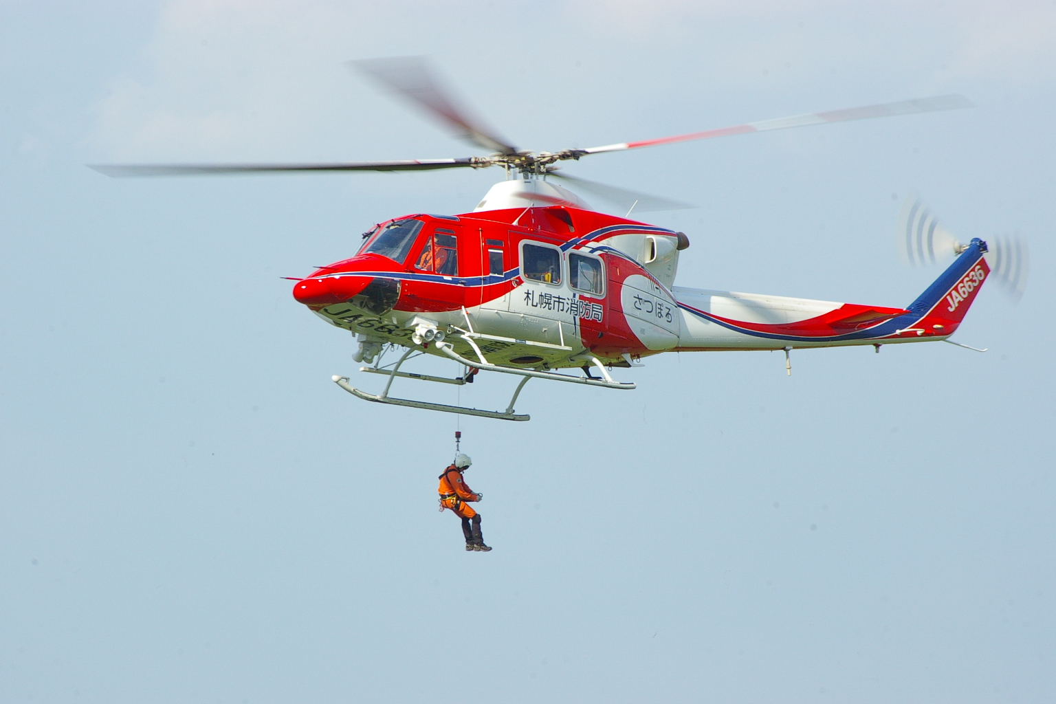 SATSUPORO & hoist up fireman.